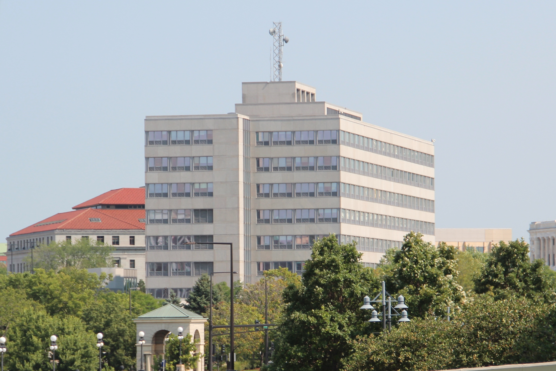 Minnesota Transportation Building, St. Paul